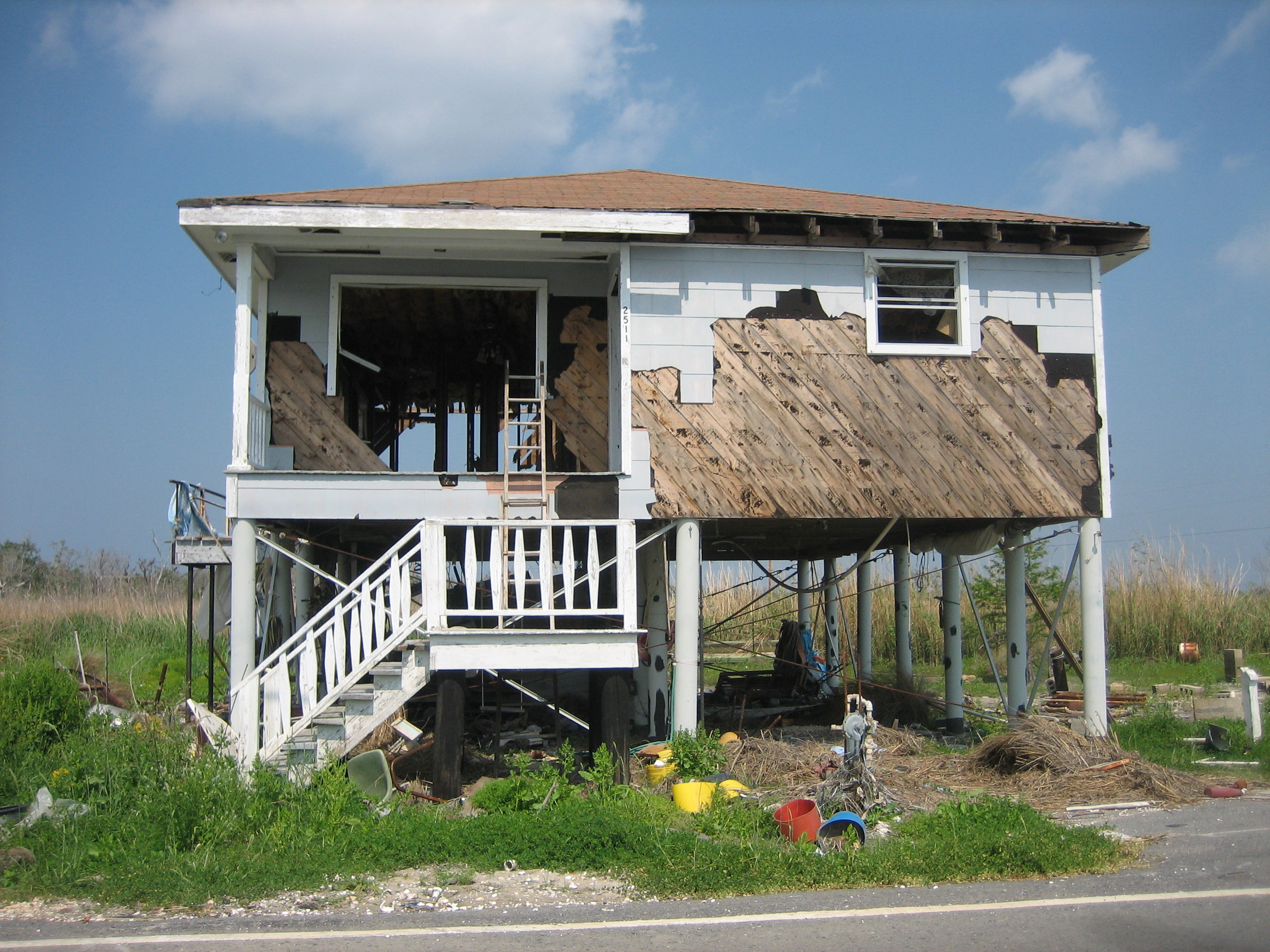 House in Yscloskey, Louisiana damaged by Hurricane Katrina storm surge. Most houses in eastern St. Bernard Parish, Louisiana were built elevated off the ground to deal with floods from occasional massive hurricanes as experienced over the past few centuries, but this was not sufficent to deal with the huge flood from Katrina funneled in by the MRGO Canal whose levees failed catastrophically.